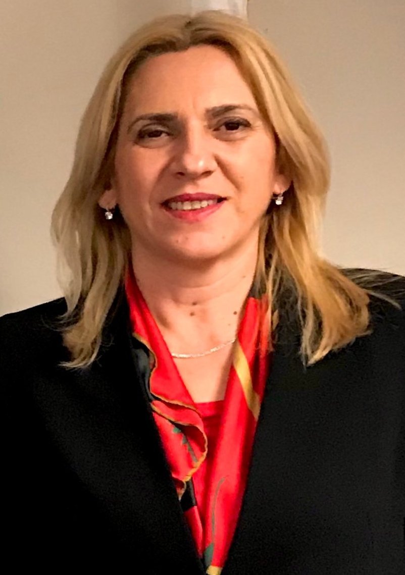 Enjoyed my meeting with the President of the Republic of Srpska Željka Cvijanović. We discussed @USAID's partnership with #BiH to create new opportunities for young people to get involved in government, civil society, and the private sector.